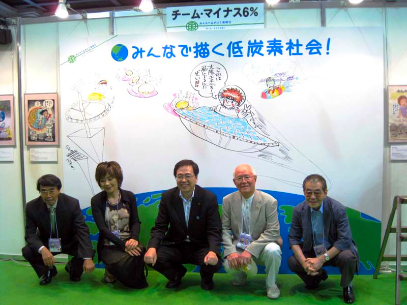 Tetsuo Saitō, Minister of the Environment, posed for photos with Shinji Mizushima, Chairman of the International Comic Artist Conference Execution Committee, Machiko Satonaka, Representative Director of the Manga Japan, Tetsuya Chiba, Executive Director of Japan Cartoonists Association, and Monkey Punch, President of the Digital Manga Association, at the International Comic Artist Conference Fiesta in Kyōto City, Kyōto Prefecture on September 6, 2009.